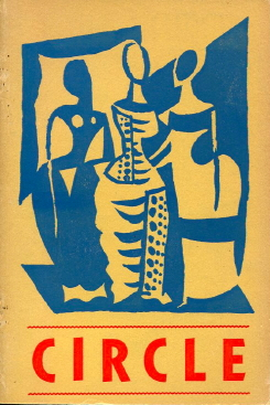 Cover of 4th issue of Circle Magazine, 1944